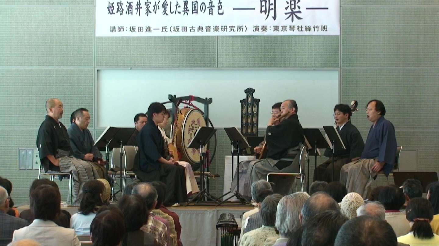 The concert of "Mingaku" (the court music of Ming dynasty, which was imported to Japan in Edo era) at Himeji Bungakukan(Himeji City Museum of Literature).